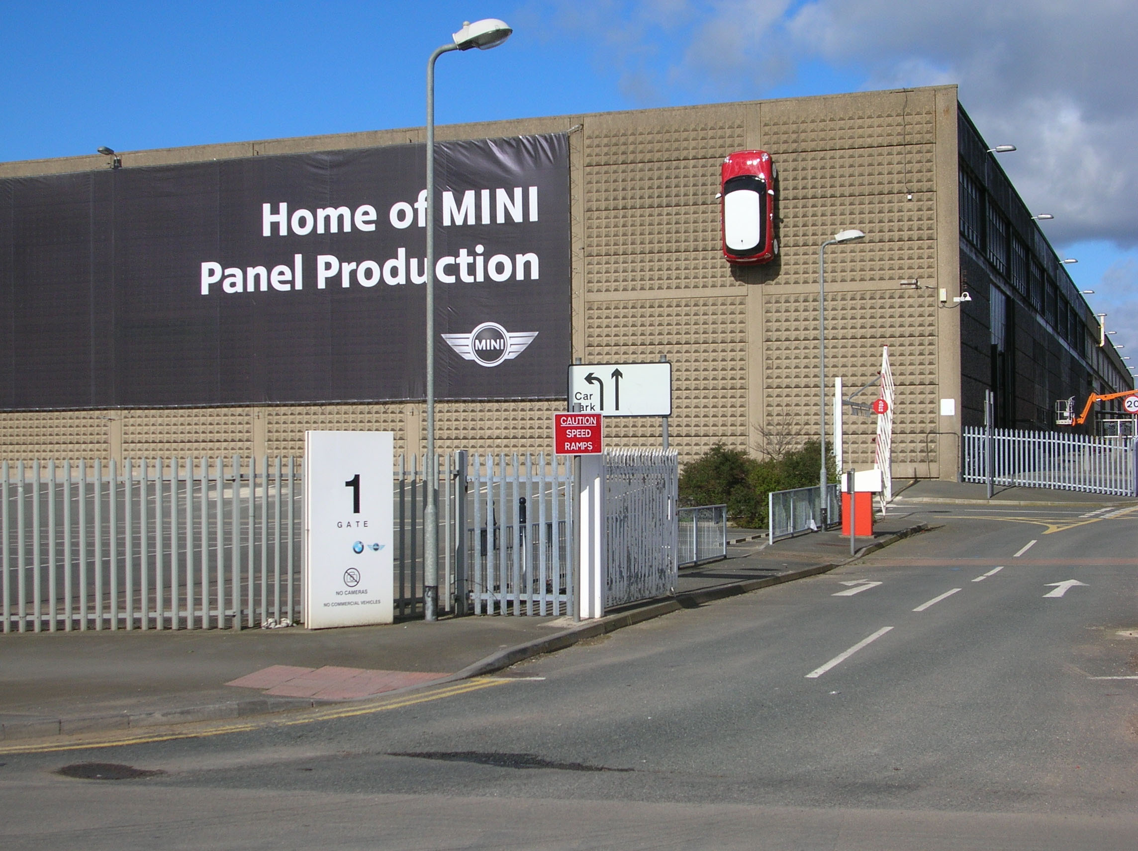 BMW MINI body plant, Swindon, UK. Swindon Pressings Limited. Complete with wall-mounted MINI.